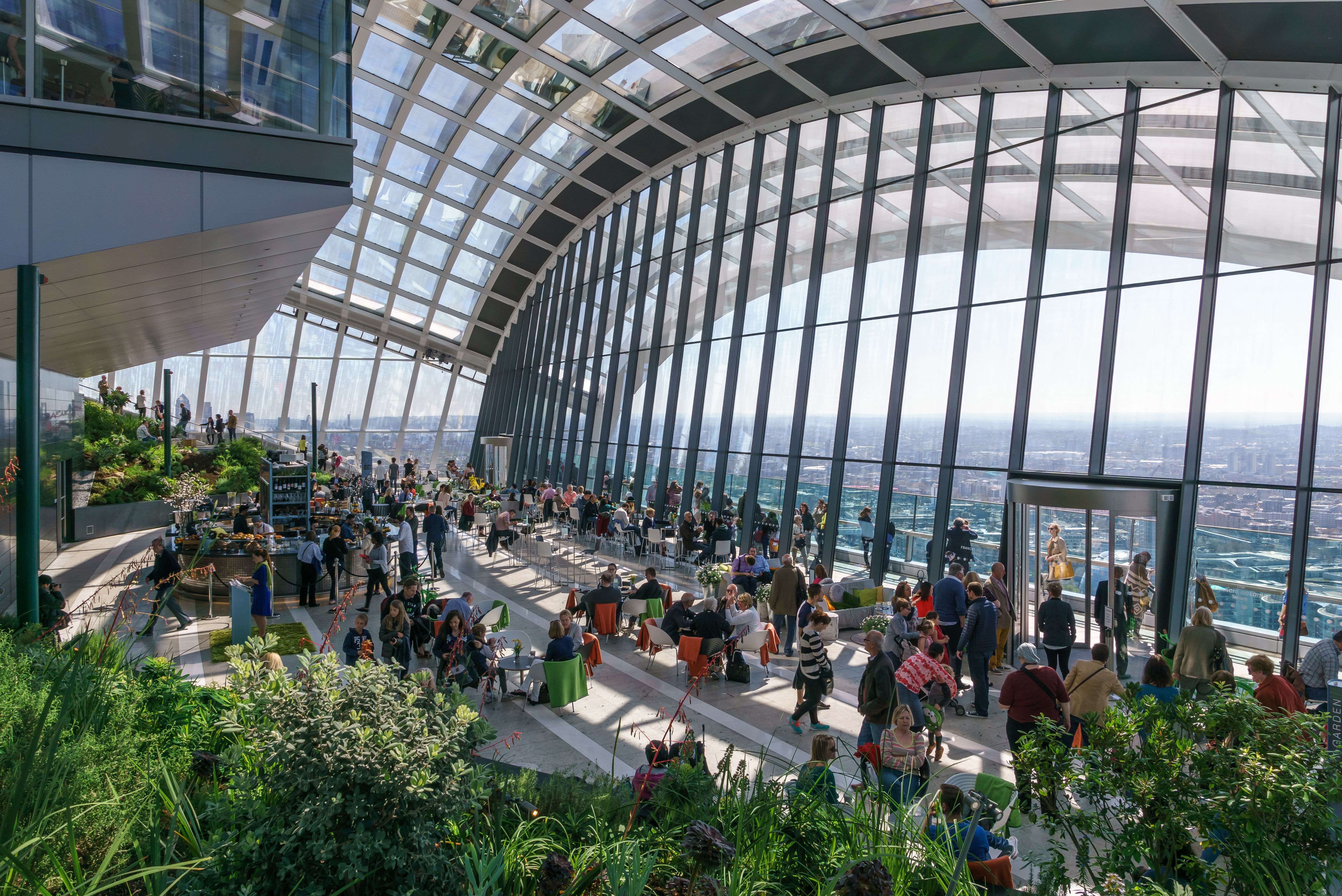 The Sky Garden atop the "Walkie-Talkie"